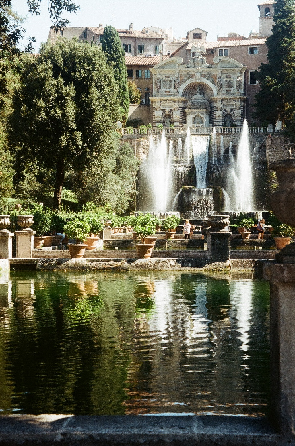 Villa d'Este September 2011